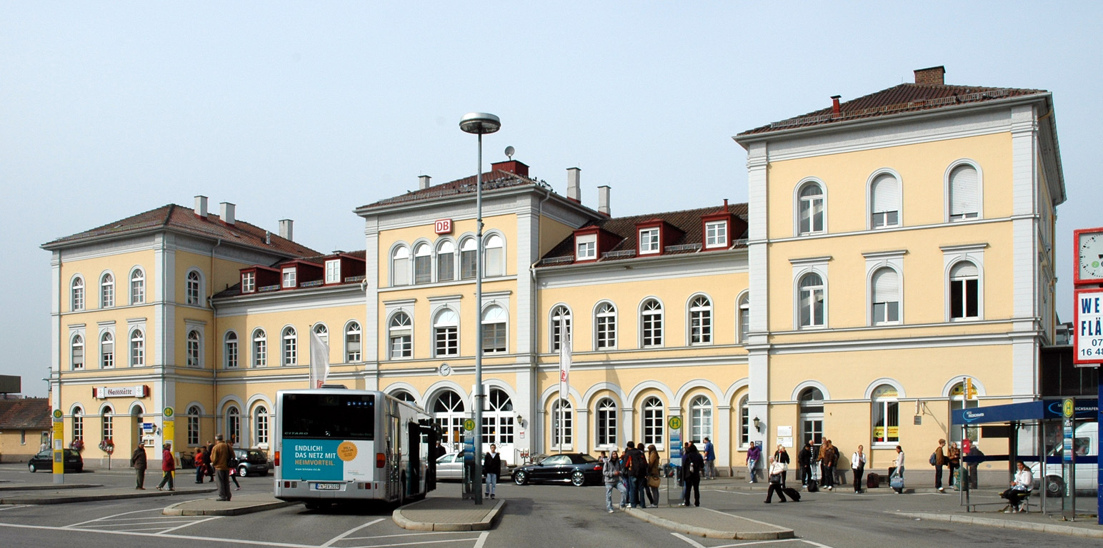 train station Stadtbahnhof in Friedrichshafen